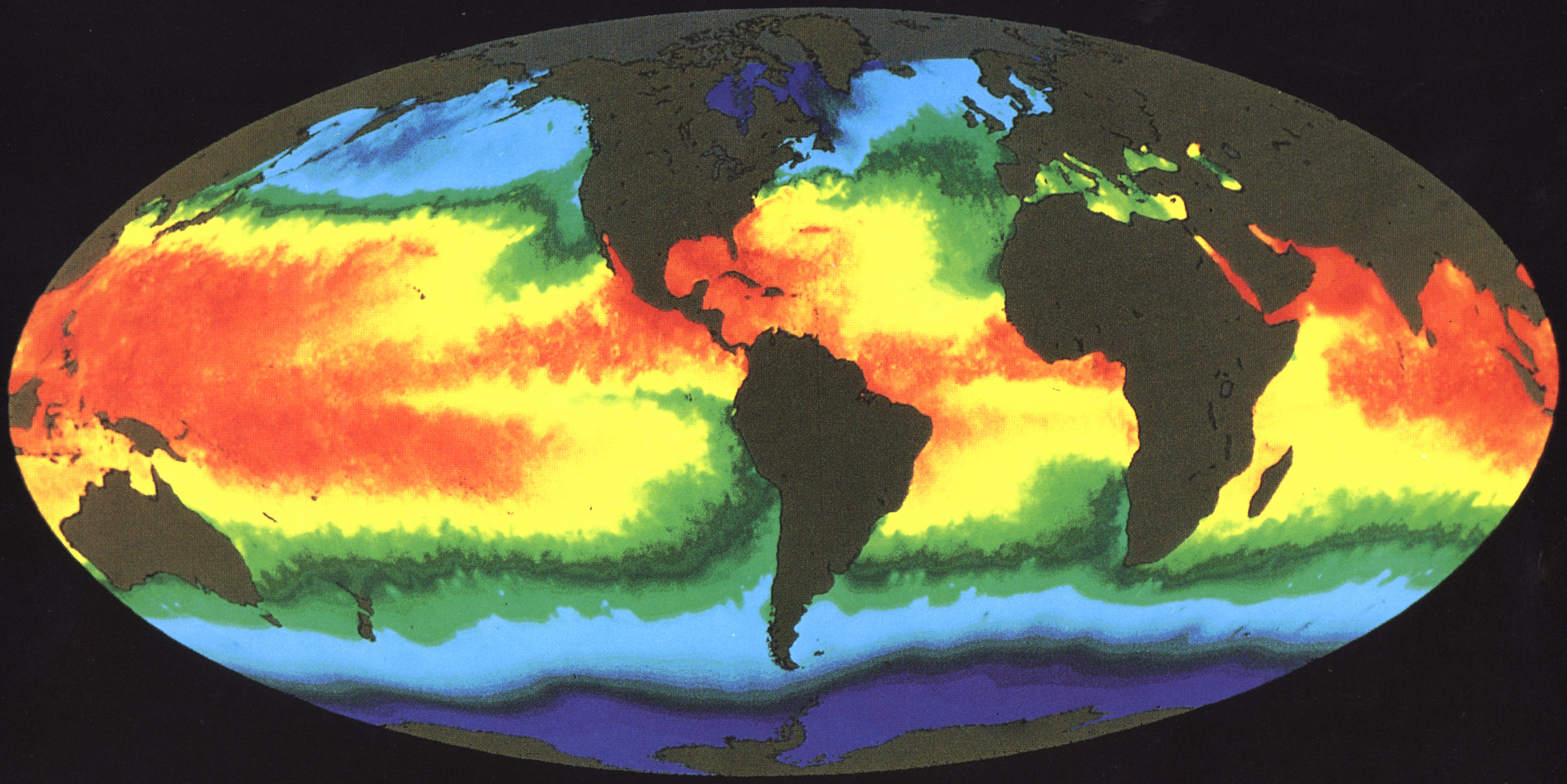 This illustration of Earth's sea surface temperature was obtained from two weeks of infrared observations by the Advanced Very High Resolution Radiometer (AVHRR), an instrument on board NOAA-7 during July 1984. Temperatures are color coded with red being warmest and decreasing through oranges, yellows, greens, and blues. Temperature patterns seen in this image are the result of many influences, including the circulation of the ocean, surface winds, and solar heating. The image indicates a large pool of warm water in the Western Pacific and a tongue of relatively cold water extending along the Equator westward from South America. Every few years, there occurs an interrelated set of changes in the global atmospheric and oceanic circulation known as an El Ni±o in which the region of warm equatorial water in the West extends eastward across the Pacific and blankets the cool, productive regions along the coast of South America. Fish, birds, and marine mammals that depend upon the normally phytoplankton-rich waters often die in large numbers during El Ni±o. Images of sea surface temperature such as this help scientists to better monitor and ultimately understand the changes to Earth caused by events such as El Ni±o.